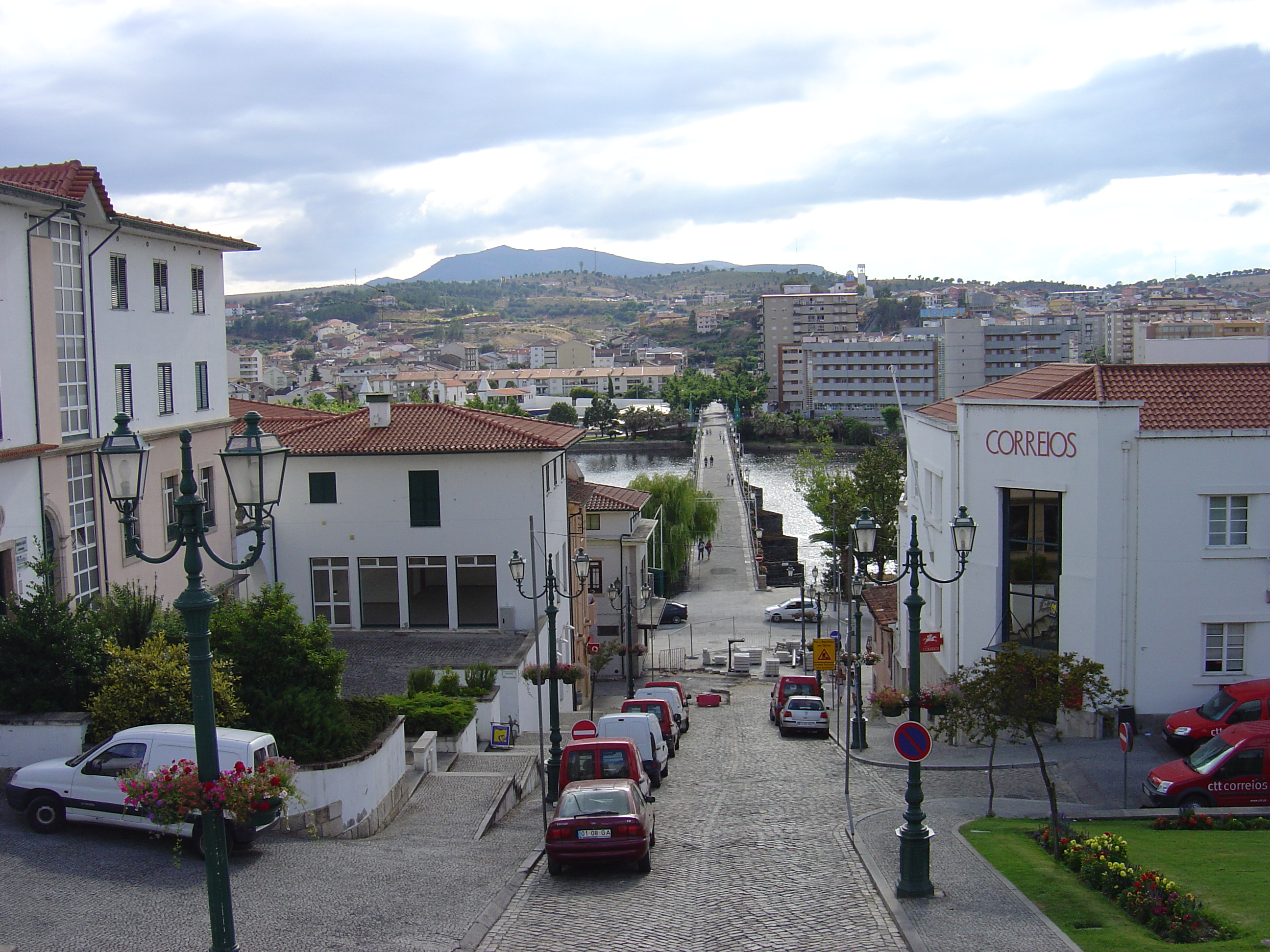 Mirandela, Portugal